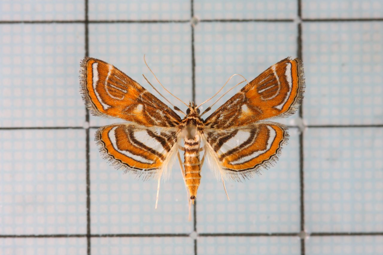 Paracymoriza cataclystalis (Strand, 1919) 認識台灣的昆蟲 19 螟蛾總科:P.65